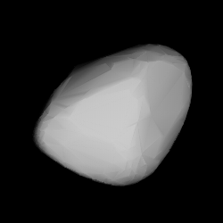 3D convex shape model of 7835 Myroncope, computed using light curve inversion techniques. J. Hanuš, J. Ďurech, M. Brož, B. D. Warner (June 2011). "A study of asteroid pole-latitude distribution based on an extended set of shape models derived by the lightcurve inversion method". Astronomy and Astrophysics 530: A134. ISSN 0004-6361. arXiv